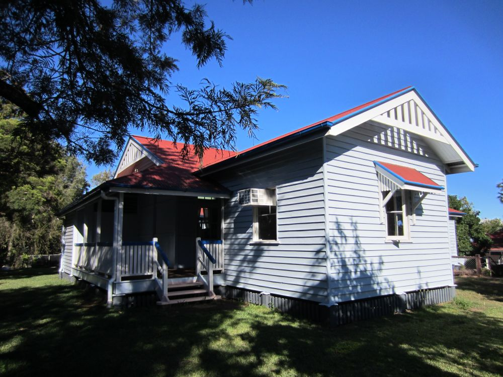 Sectional School Building (Block A), viewed from northeast (source EHP, 2015)